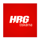 Logo of the Printing House HRG